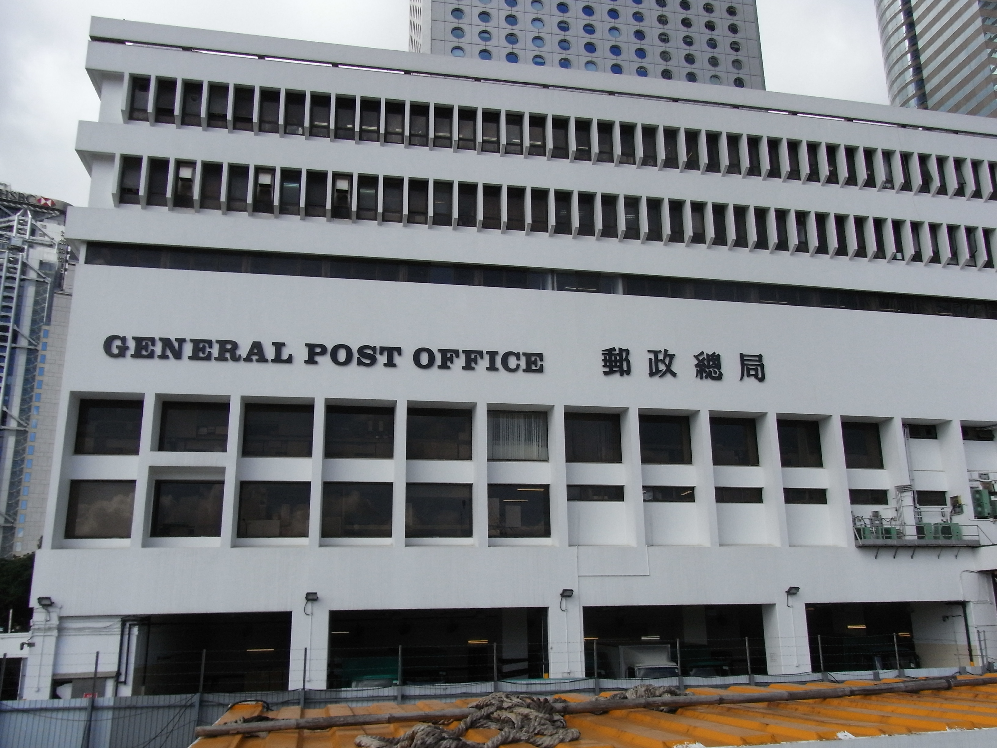 中環 龍和道, Lung Wo Road, Central, Hong Kong